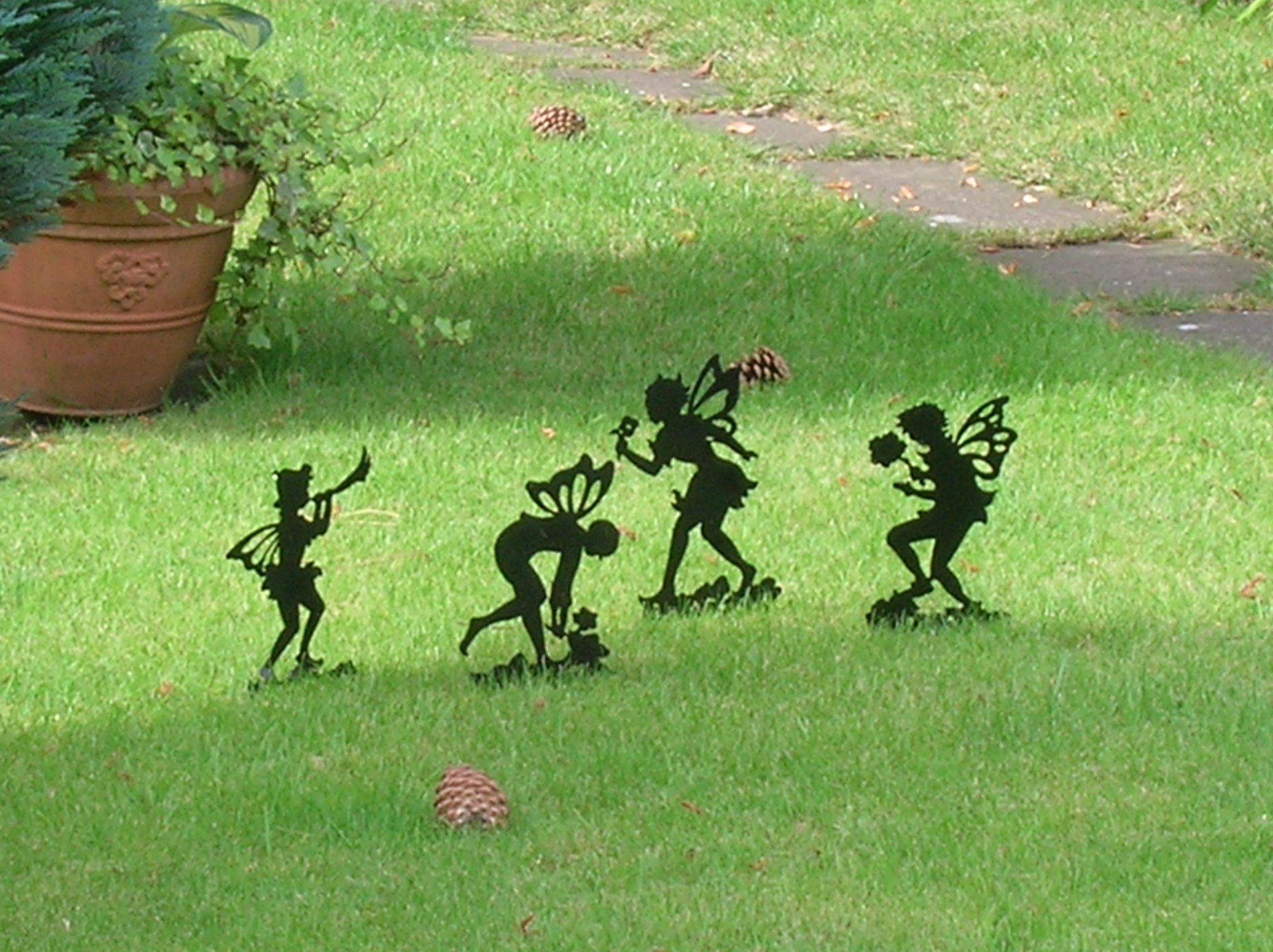 Fairies in a garden at Cottingley